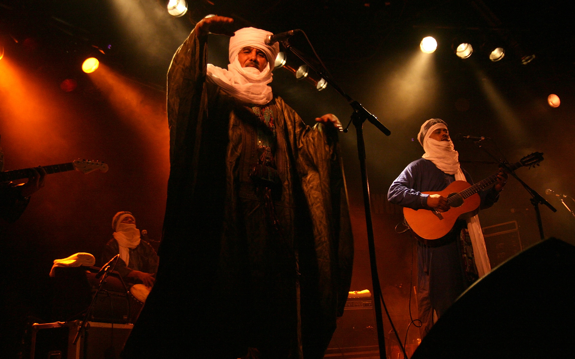 Tinariwen - concert at the cultural center WUK in Vienna.